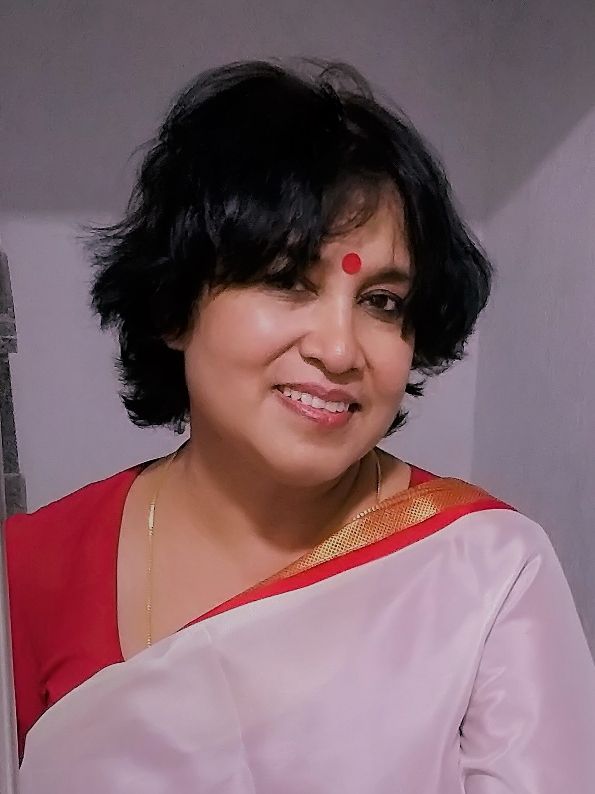 This is taken by me.